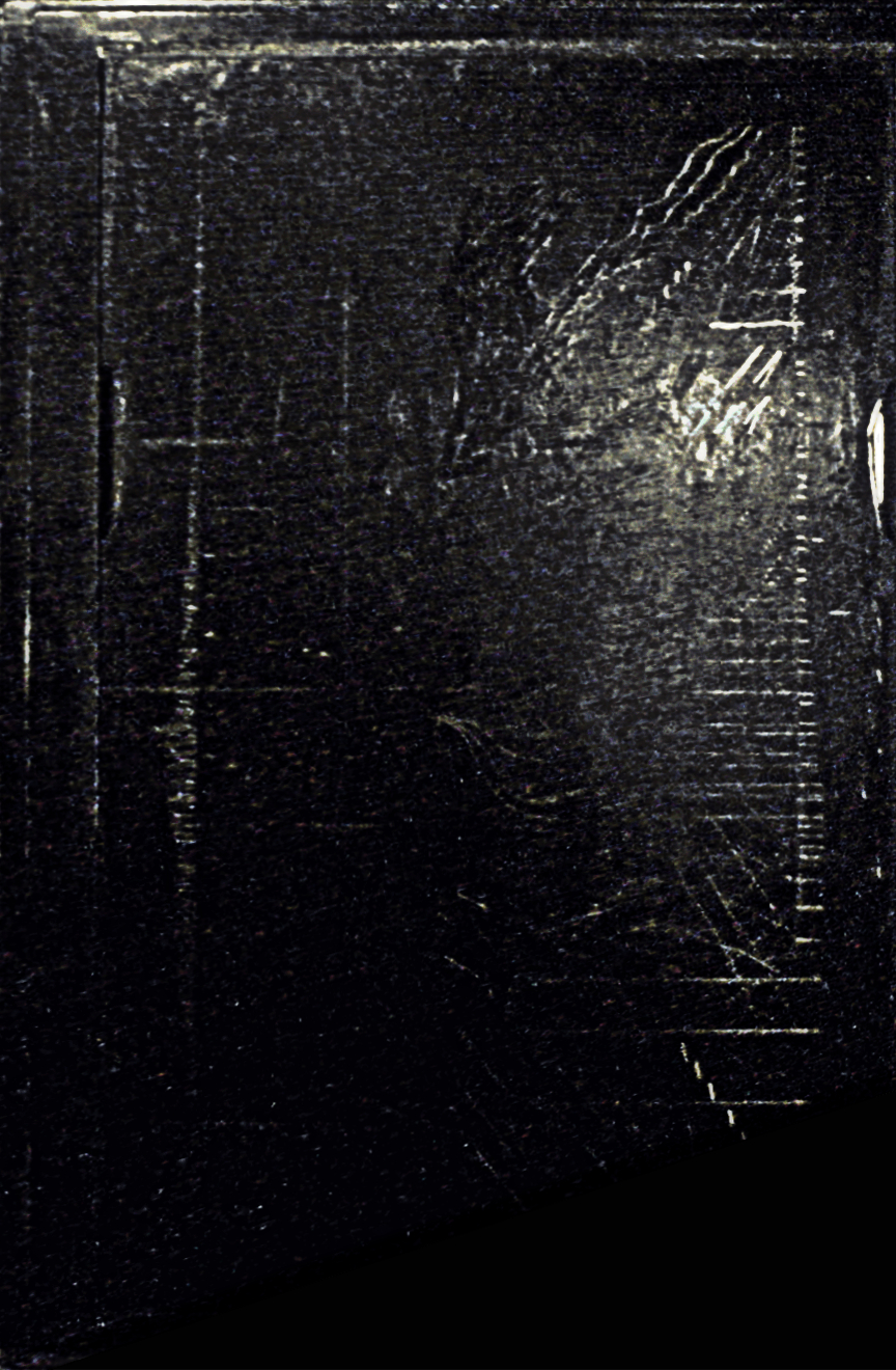 ANS synthesizer's music score scratched on a glass plate covered with black mastic (clip) “Example scores for ANS. The dark lines in the figure - transparent lines on the board. Horizontal lines will sound like ringing constant height, diagonal - as glissando (глісандуючий) tone. Short strokes - as fragmentary sounds.” —АНС#Історія (see also image: File:Sc02.jpg)